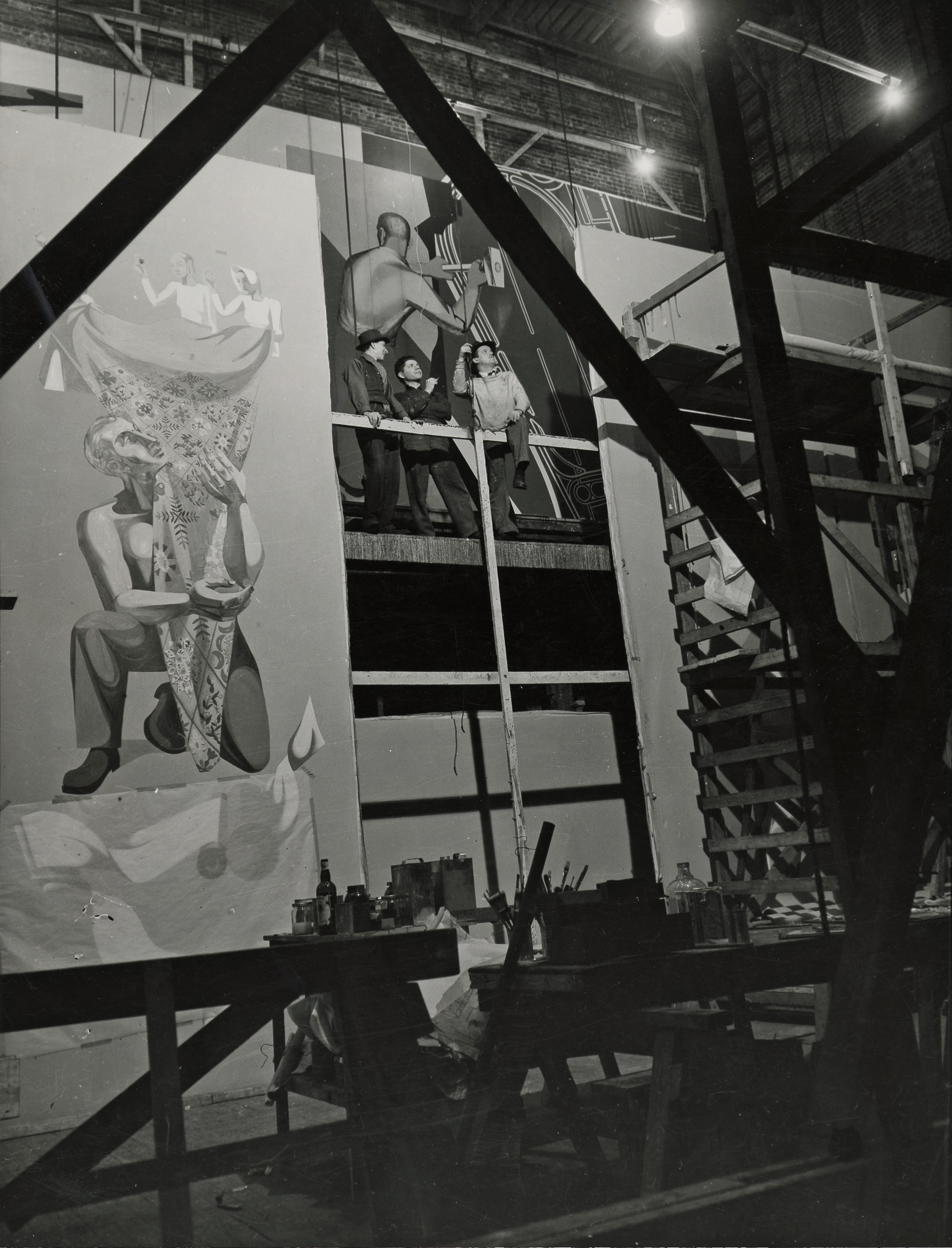 Refregier on scaffold at work on mural at WPA Building of the 1939 N.Y. World's Fair. Photographed for the Works Progress Administration.Identification on verso (handwritten and stamped): Federal Art Project W.P.A.; Photographic Division; 110 King Street; New York City Location: World's Fair; Date: 3/13/39; Negative No.: 3563-17-45; Photographer: Robbins.